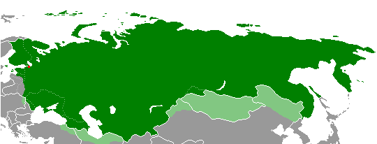 Russian Provisional Government of 1917